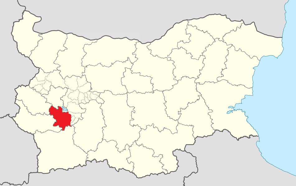 Location map of Samokov Municipality within Bulgaria and Sofia province